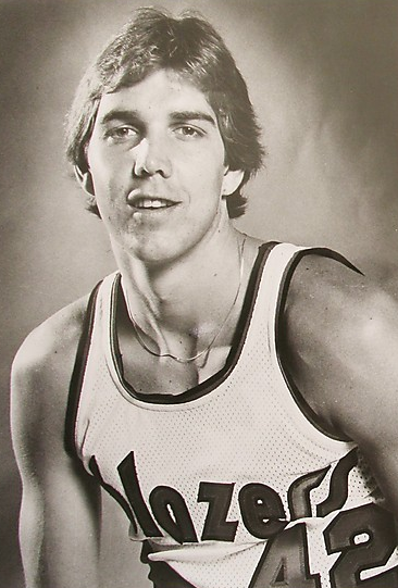 Professional basketball player Wally Walker